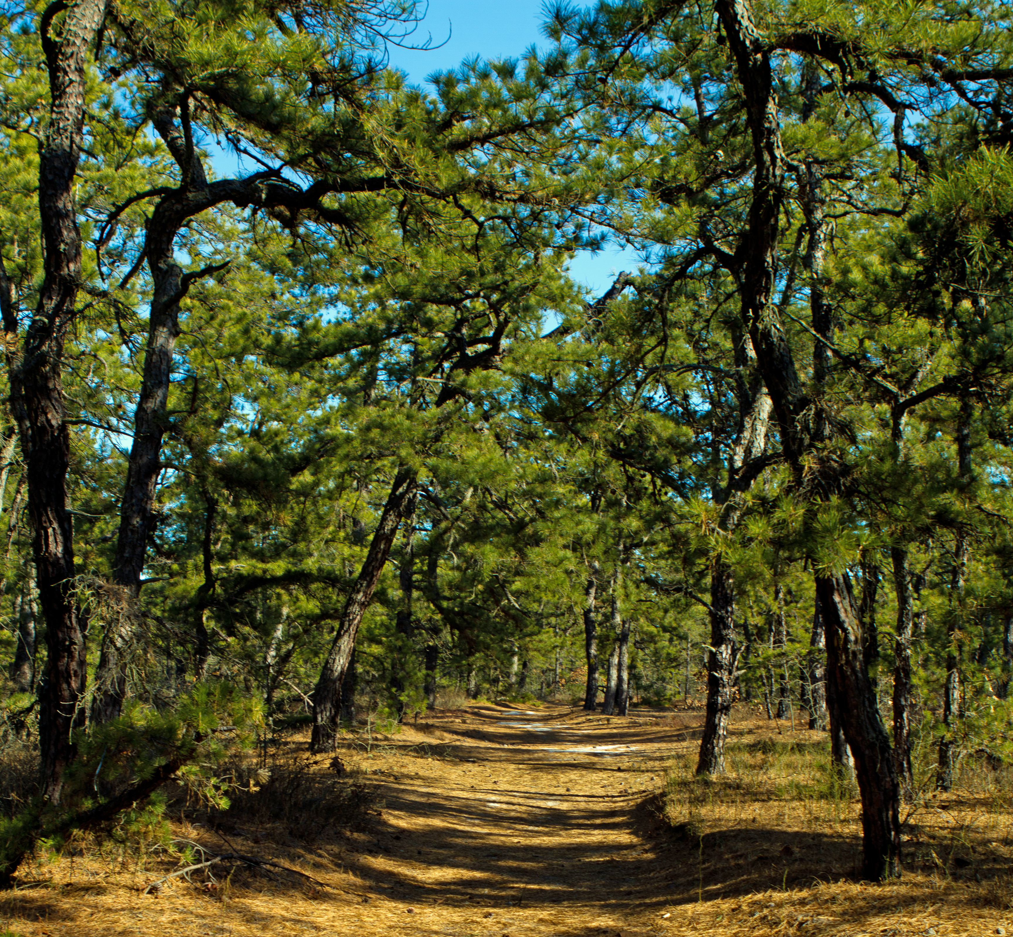 Pinus rigida, New Jersey Pine Barrens